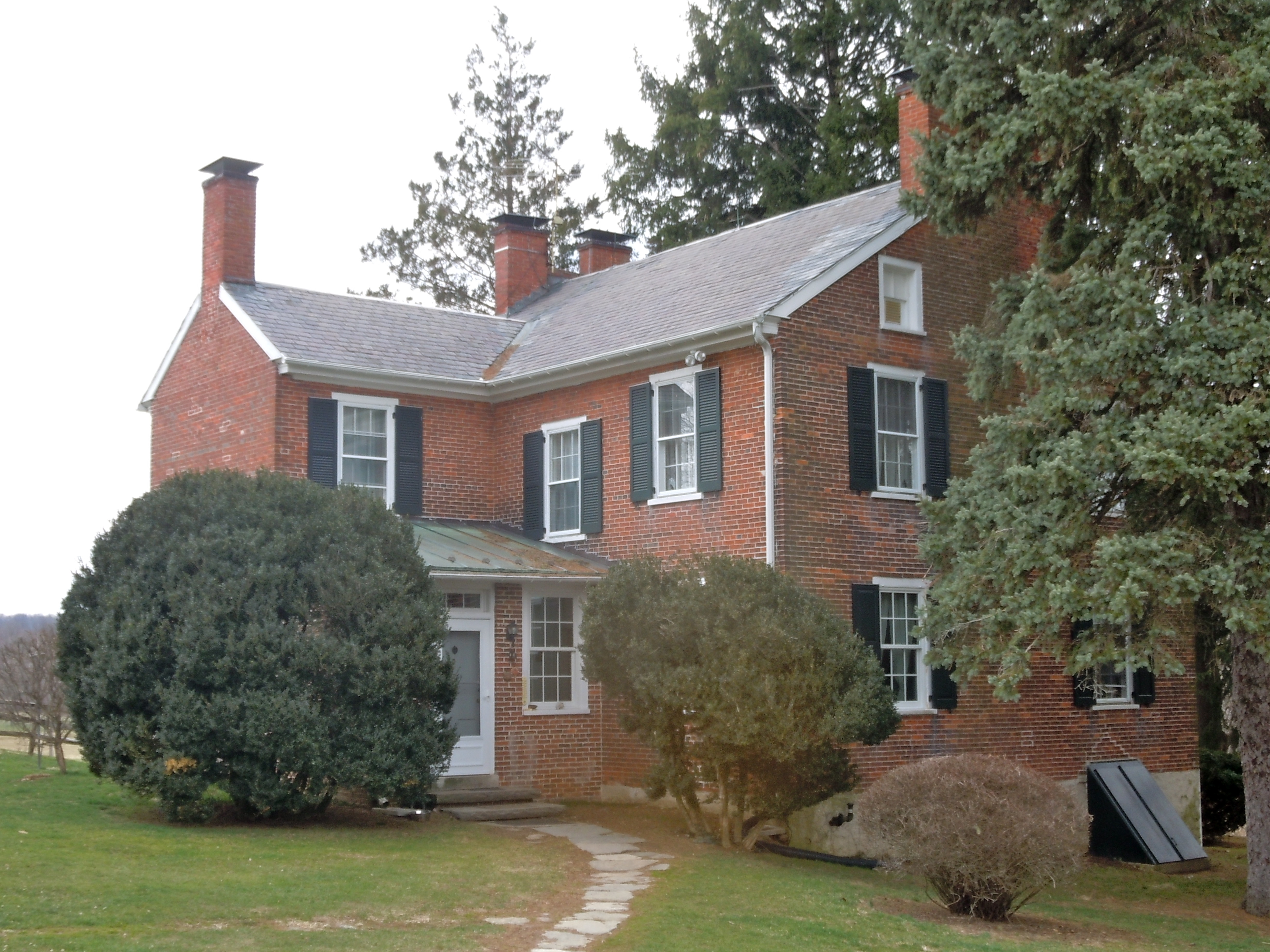 Moses Ross House on the NRHP since September 16, 1985. Off Creek Road north of Daleville, in Londonderry Township, Chester County, Pennsylvania.